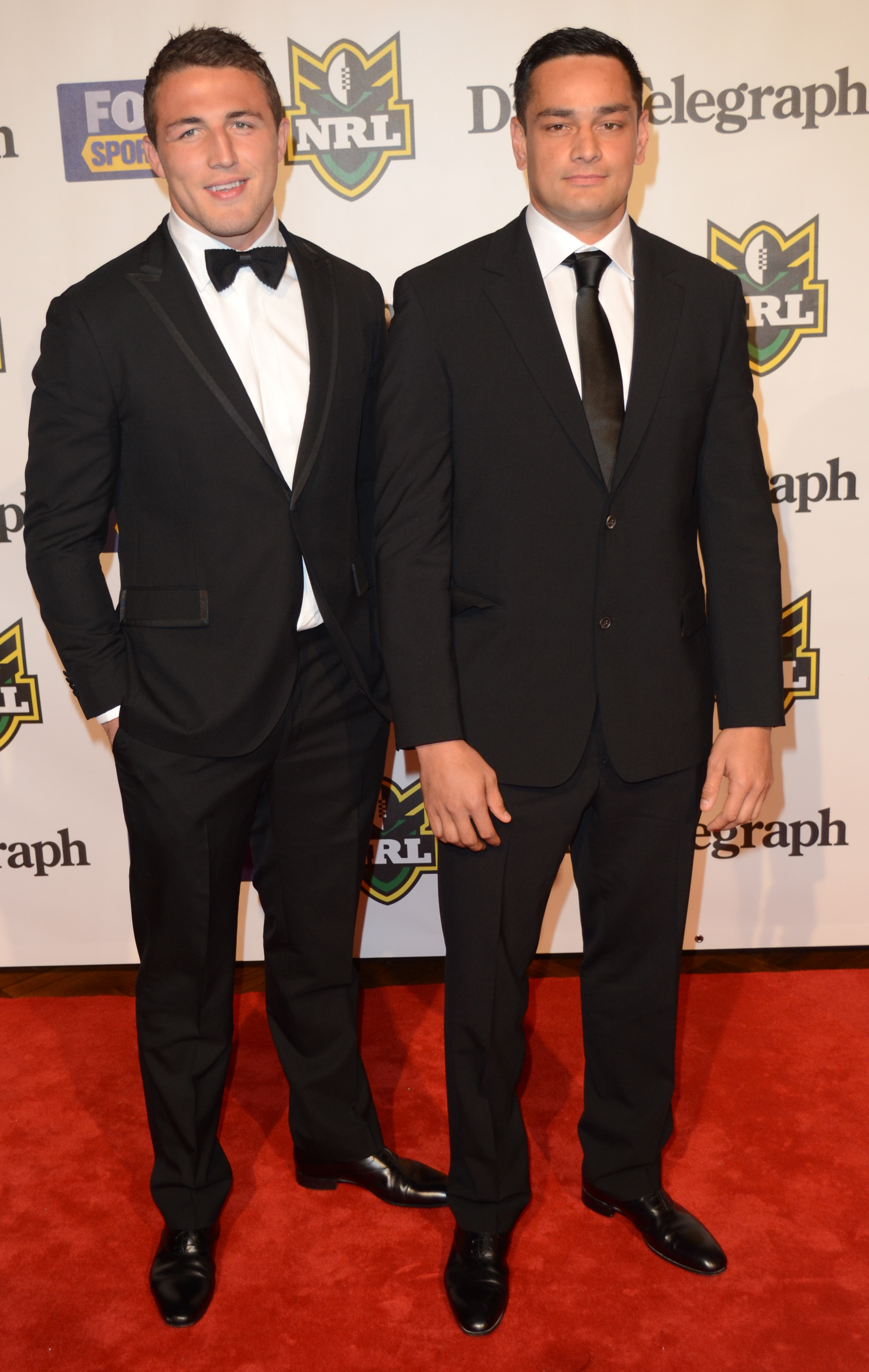 Sam Burgess & John Sutton at the 2012 NRL Dally M Awards.